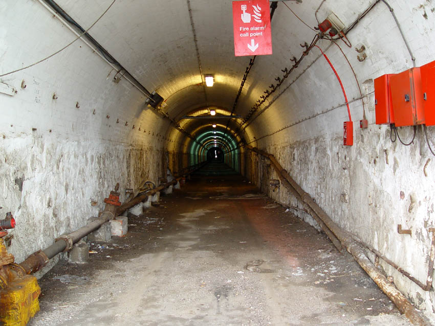 View of the Admiralty Tunnel, Gibraltar looking west.